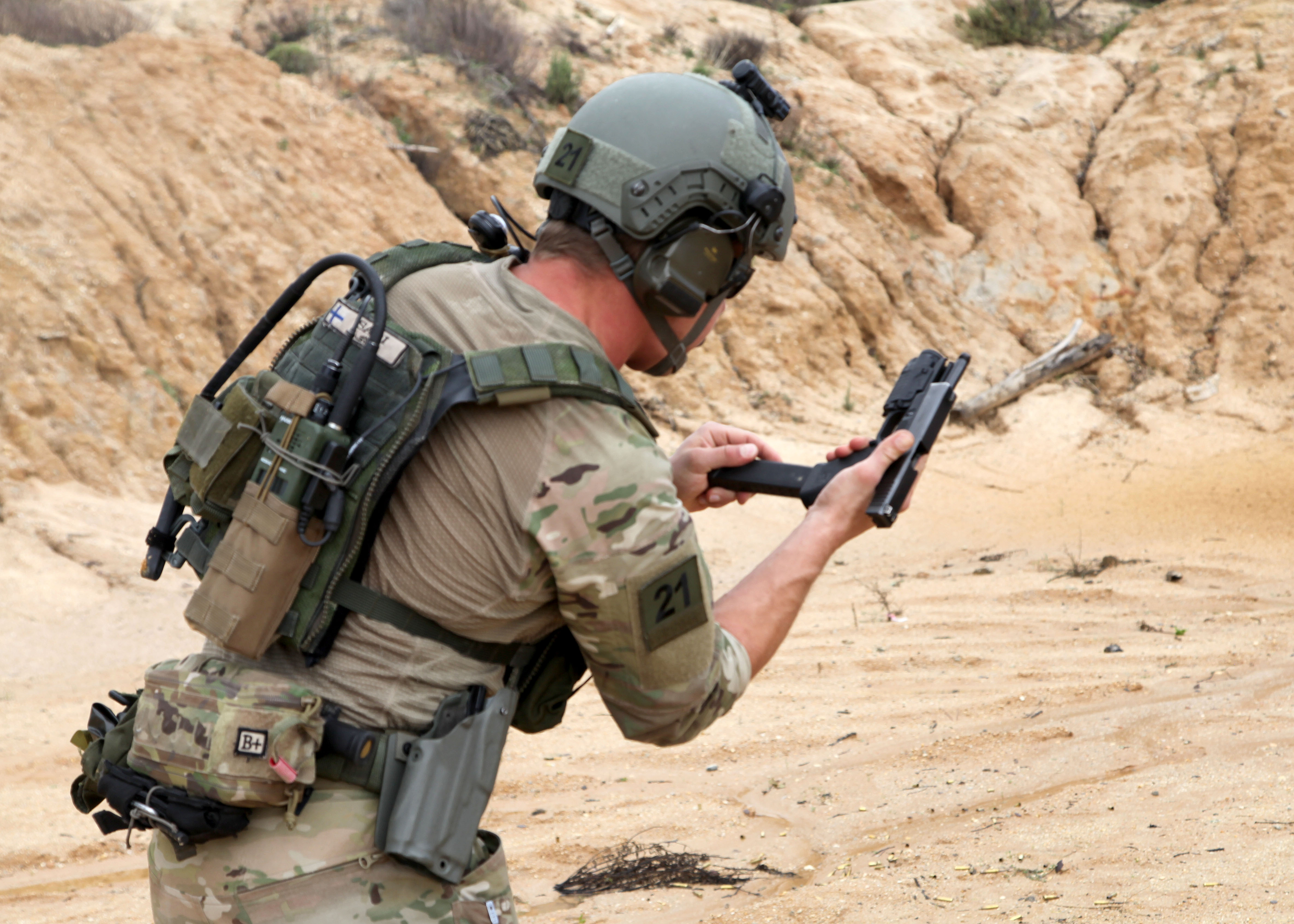 Operation Trident Juncture. Lisbon, Portugal. 24OCT15. A soldier in the Finish Naval Special Forces Unit ETO reloads his pistol while conducting a range just outside of a Portuguese Marine Base.